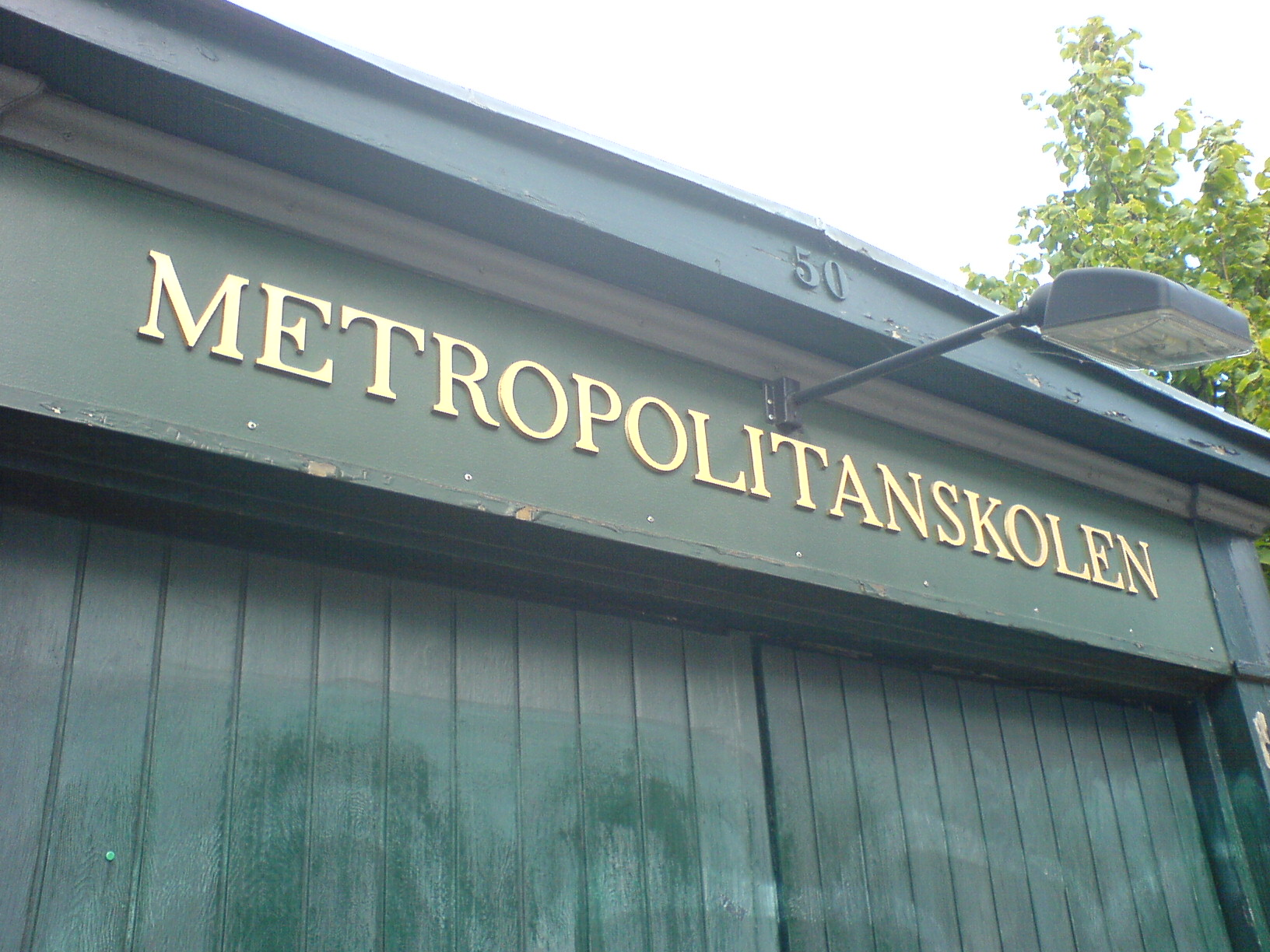 As seen in the danish movie (and book) "Det forsømte forår"